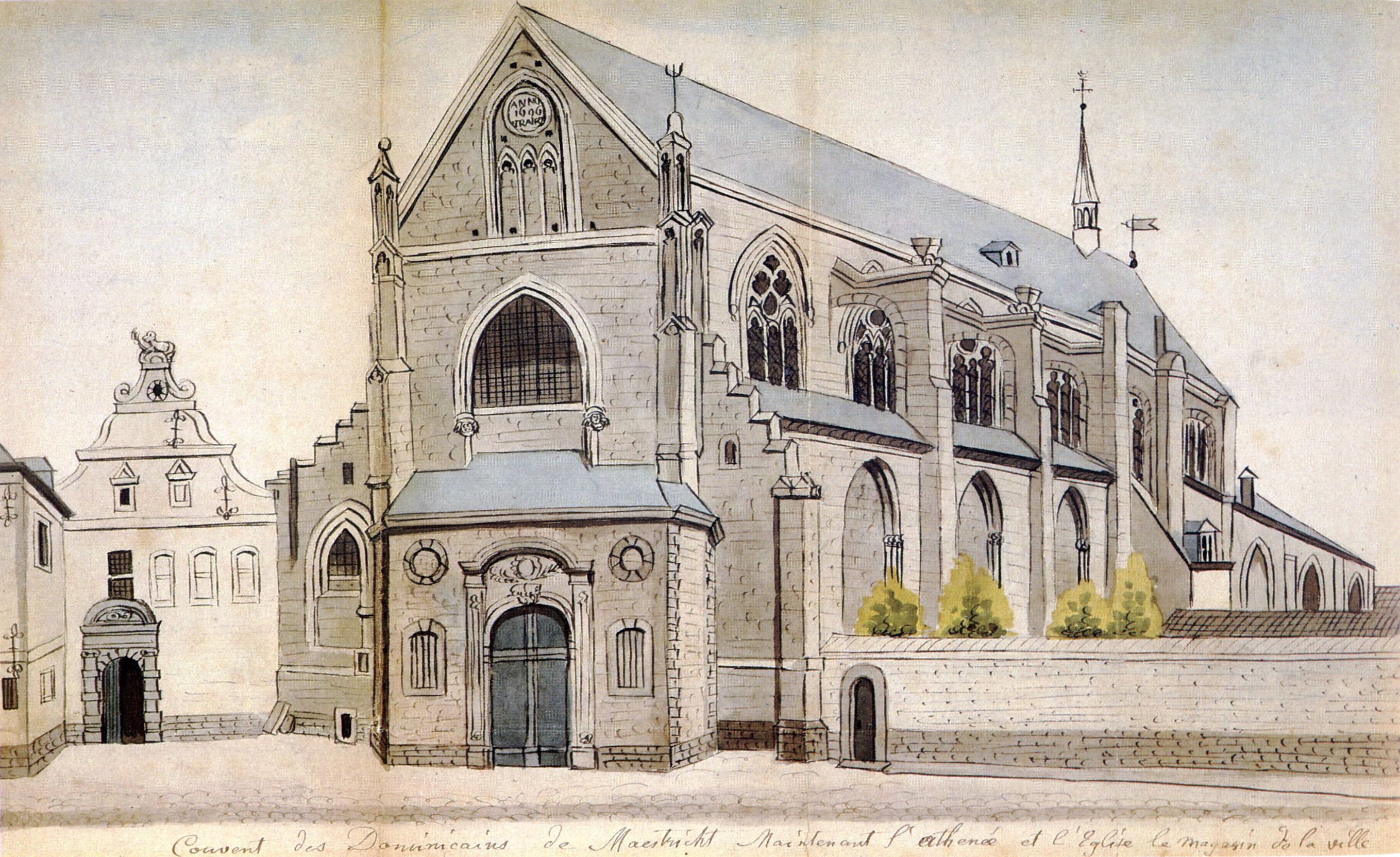 Philippus van Gulpen: Drawing of the Dominican church and monastery in Maastricht, the Netherlands, c 1830.